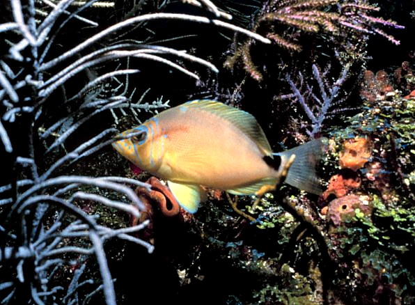 Butter hamlet fish (Hypoplectrus unicolor) with sea rods. Image ID: reef2571, NOAA's Coral Kingdom Collection Photographer: Commander William Harrigan, NOAA Corps (ret.) Credit: Florida Keys National Marine Sanctuary